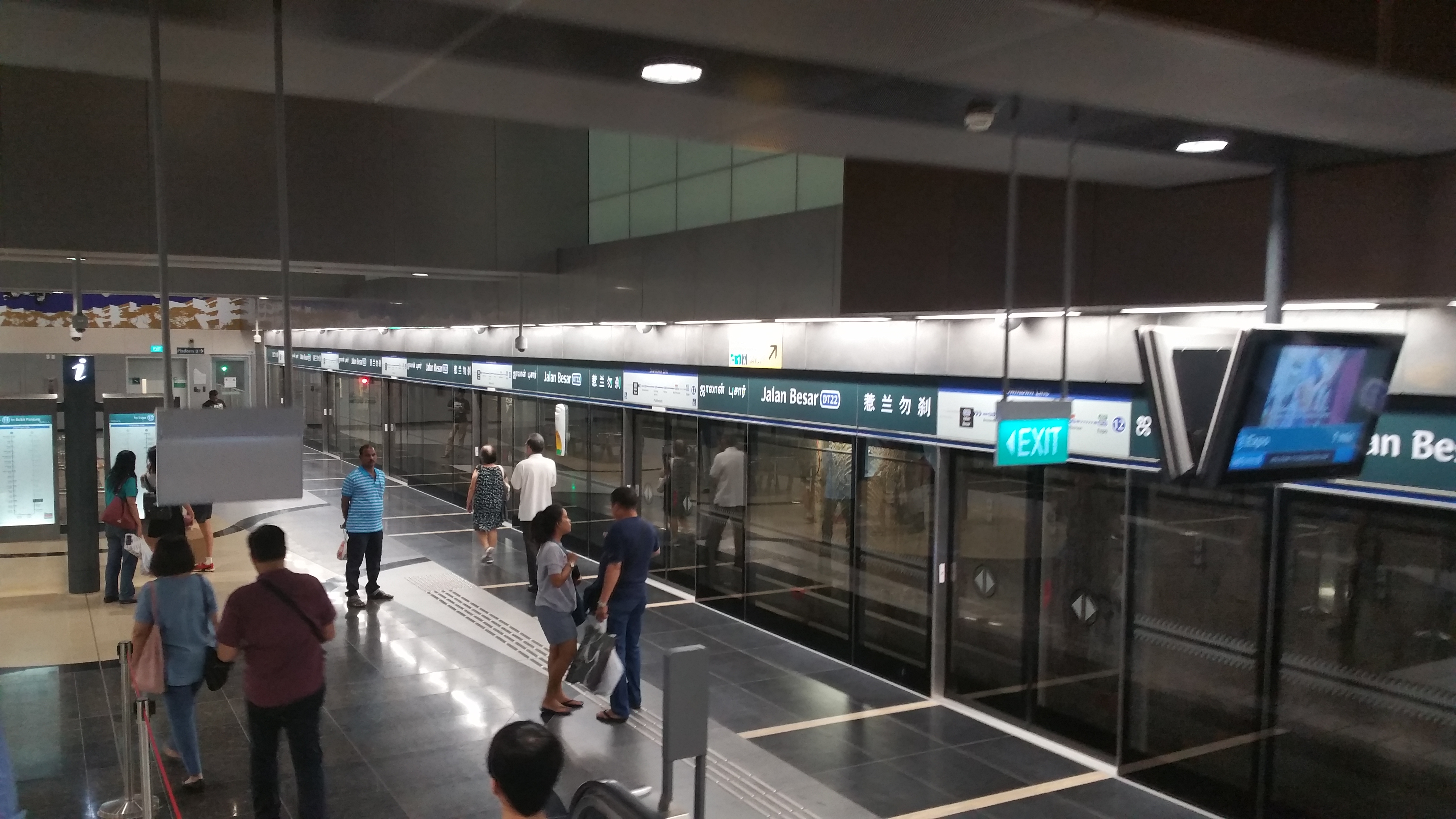 Platform Level of Jalan Besar MRT.